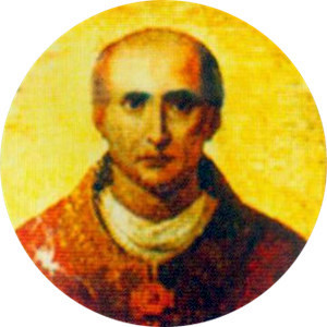 Portait of Pope John XXII in the Basilica of Saint Paul Outside the Walls, Rome